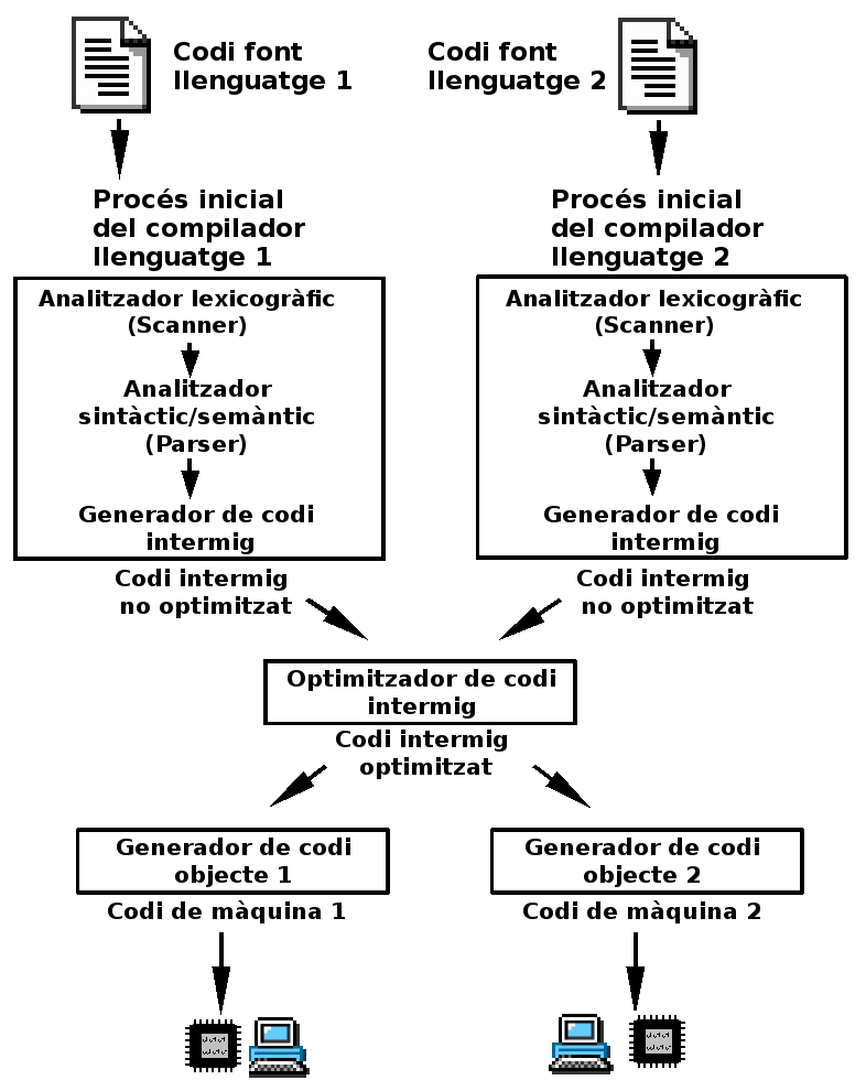 Block diagram scheme of an ideal compiler (Catalan). This source image was based in the figure from the english wikipedia compile article. In order to easily translate this drawing the source openoffice is at